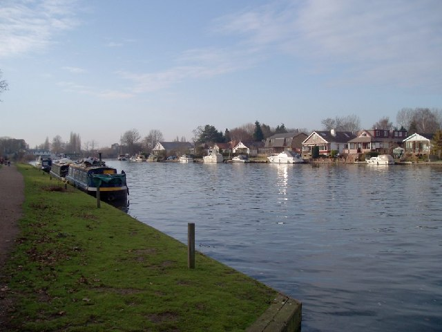 View of the Thames